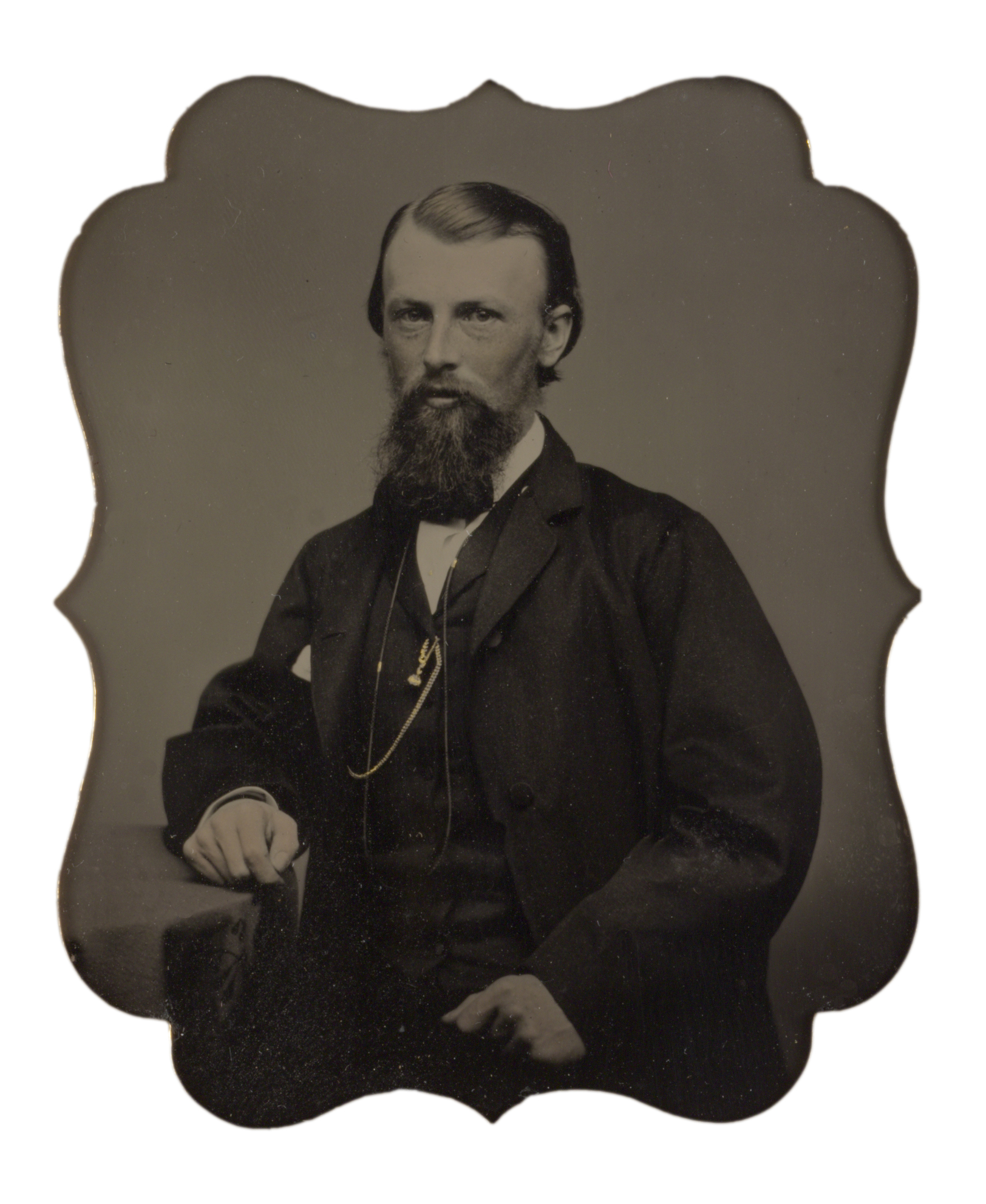 Portrait of William J Wills by Thomas Adams Hill, State Library of New South Wales, MIN 50